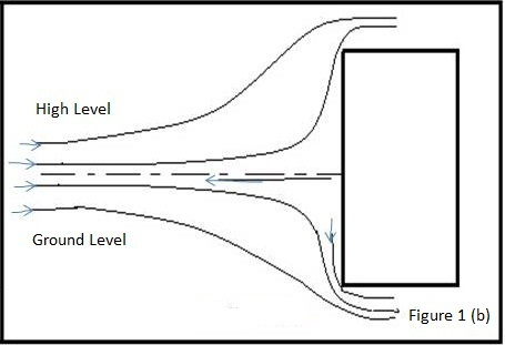 my own work